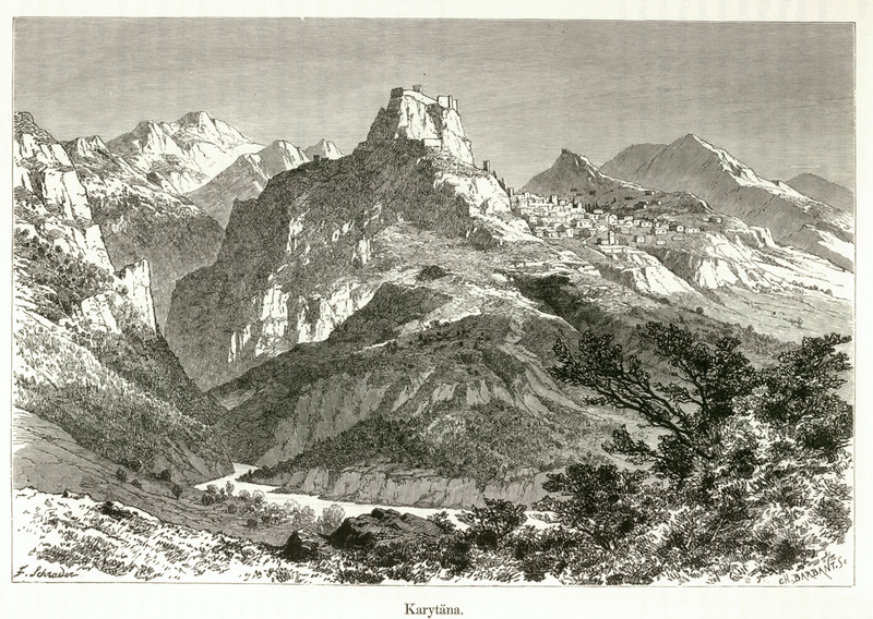 Amand Schweiger von Lerchenfeld. Griechenland in Wort und Bild, Eine Schilderung des hellenischen Konigreiches, Leipzig, Heinrich Schmidt & Carl Günther, 1887